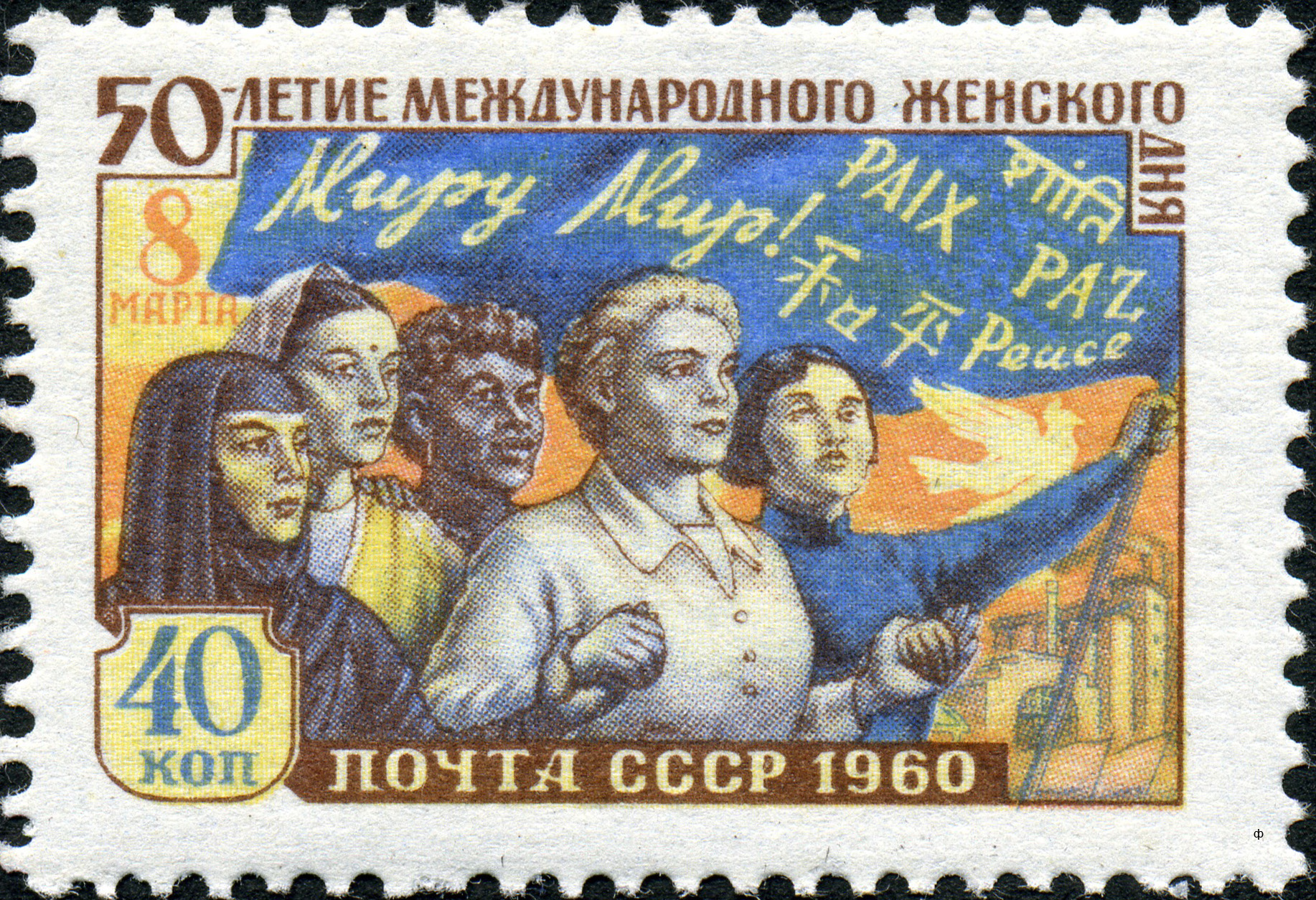 USSR postage stamp, 50th anniversary of International Women's Day, March, 8; 1960. CPA # 2405